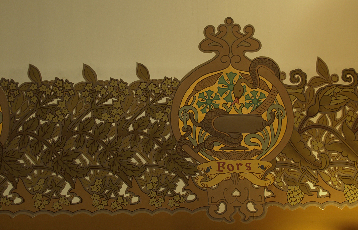 Farmàcia Bolós - Catalan Modernisme (Josep Domènech i Estapà and Antoni Falguera i Sivilla, 1904-910))